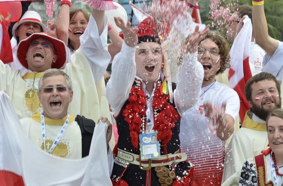 Polish pilgrims celebrate the announcement that the 2016 World Youth Day will take place in Krakow.